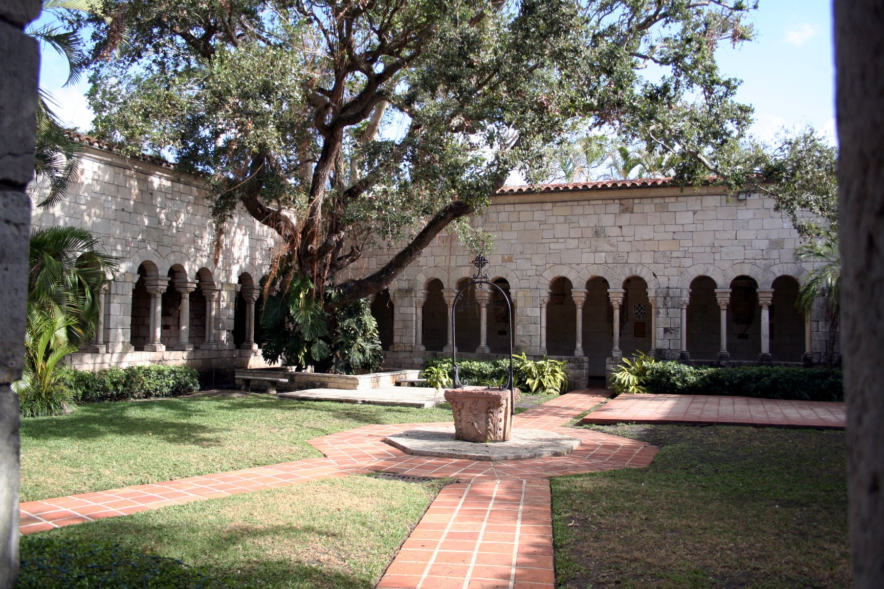 Photograph of the central yard surrounded by the cloisters of the St. Bernard de Clairvaux Church in northern Miami-Dade County, Florida, USA taken by Rolf Müller on January 23 2006 using a Canon Inc. EOS 350D digital camera with an EFS 18-55mm lens.